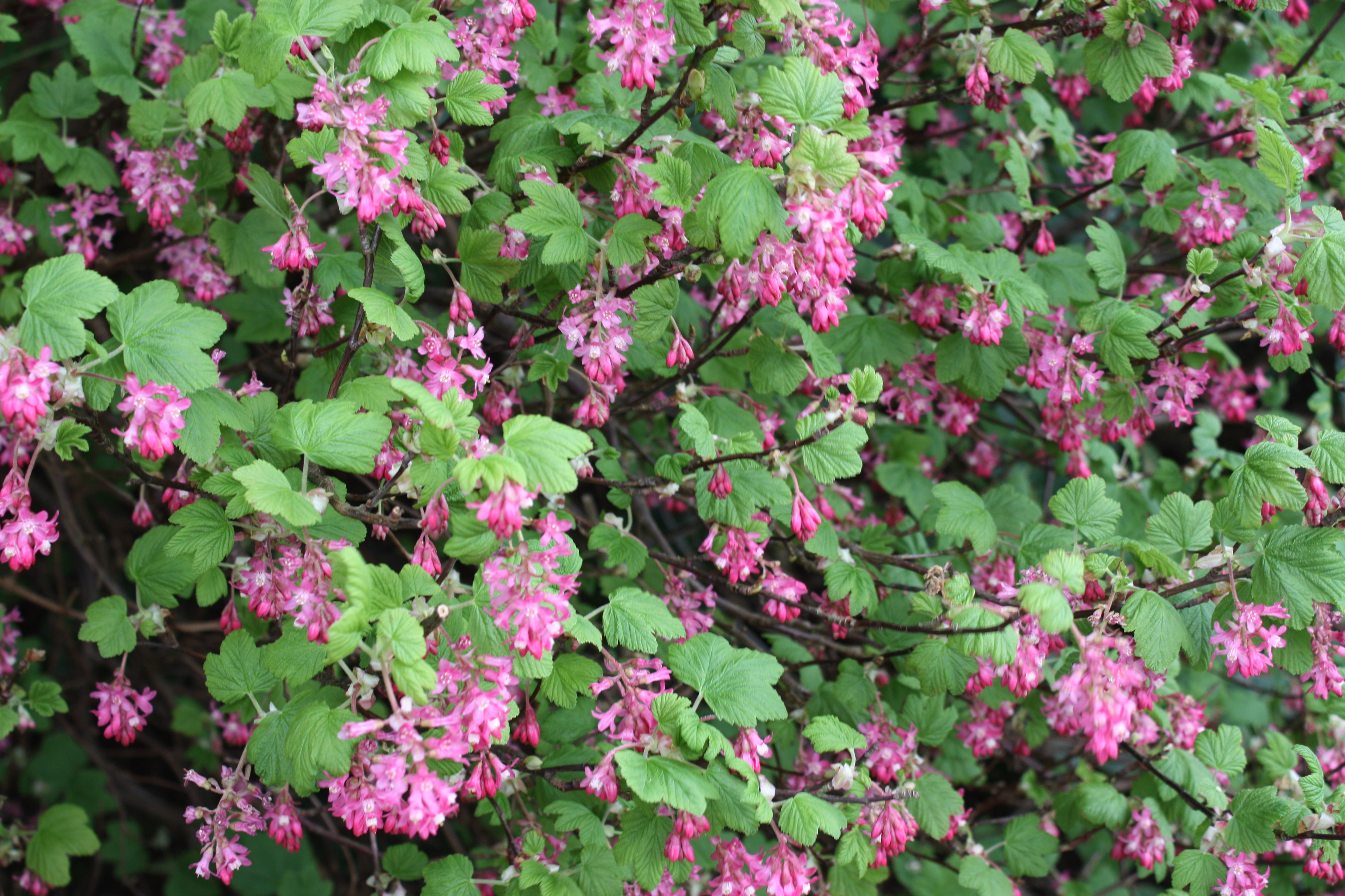 Flowering currant, Silent Valley, near Kilkeel, County Down, Northern Ireland, March 2012